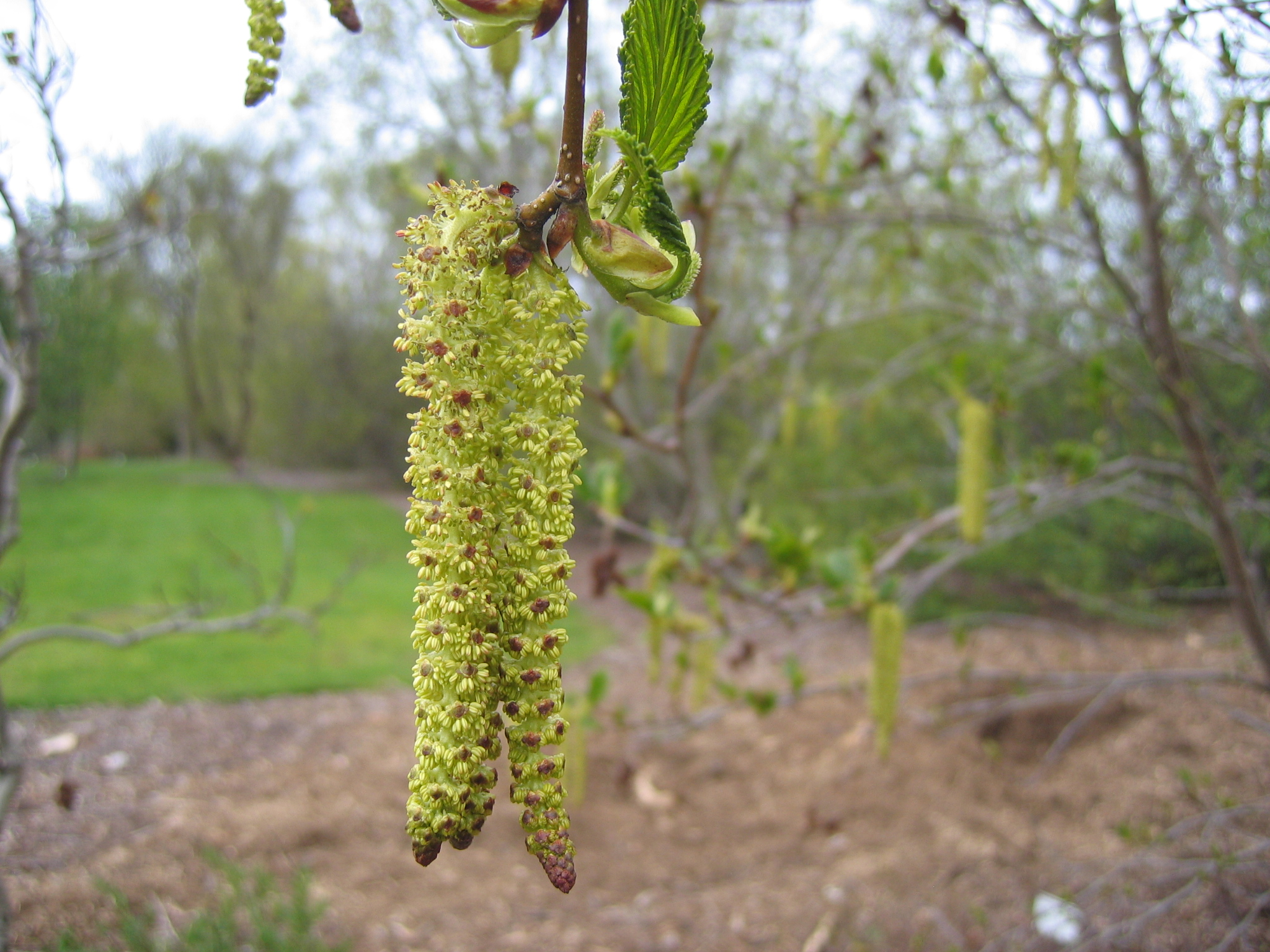 Alnus viridis - Photo taken in Grasagarður Reykjavíkur (Botanical Garden of Reykjavik) by Salvor Gissurardottir